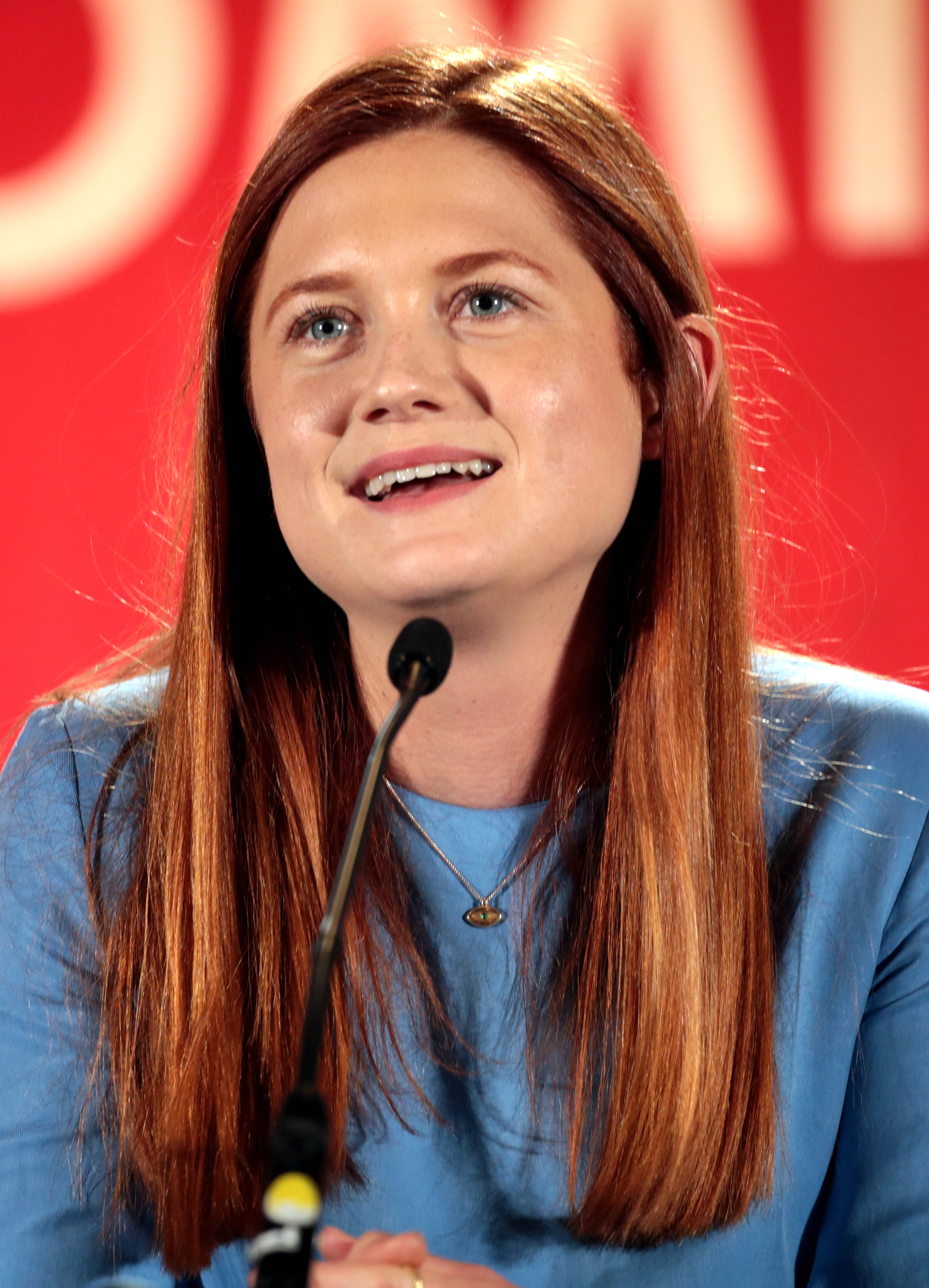 Bonnie Wright speaking at the 2017 Phoenix Comicon in Phoenix, Arizona.